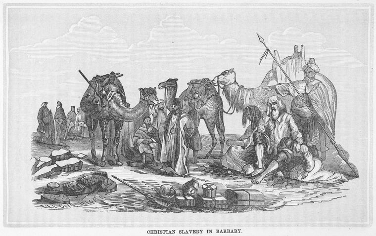 Christian slavery in Barbary - The history of slavery and the slave trade, ancient and modern. The forms of slavery that prevailed in ancient nations, particularly in Greece and Rome. The African slave trade and the political history of slavery in the United States